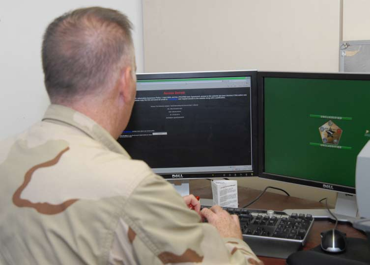 Computers at the Guantanamo Bay Naval Base are protected by 'websense'.